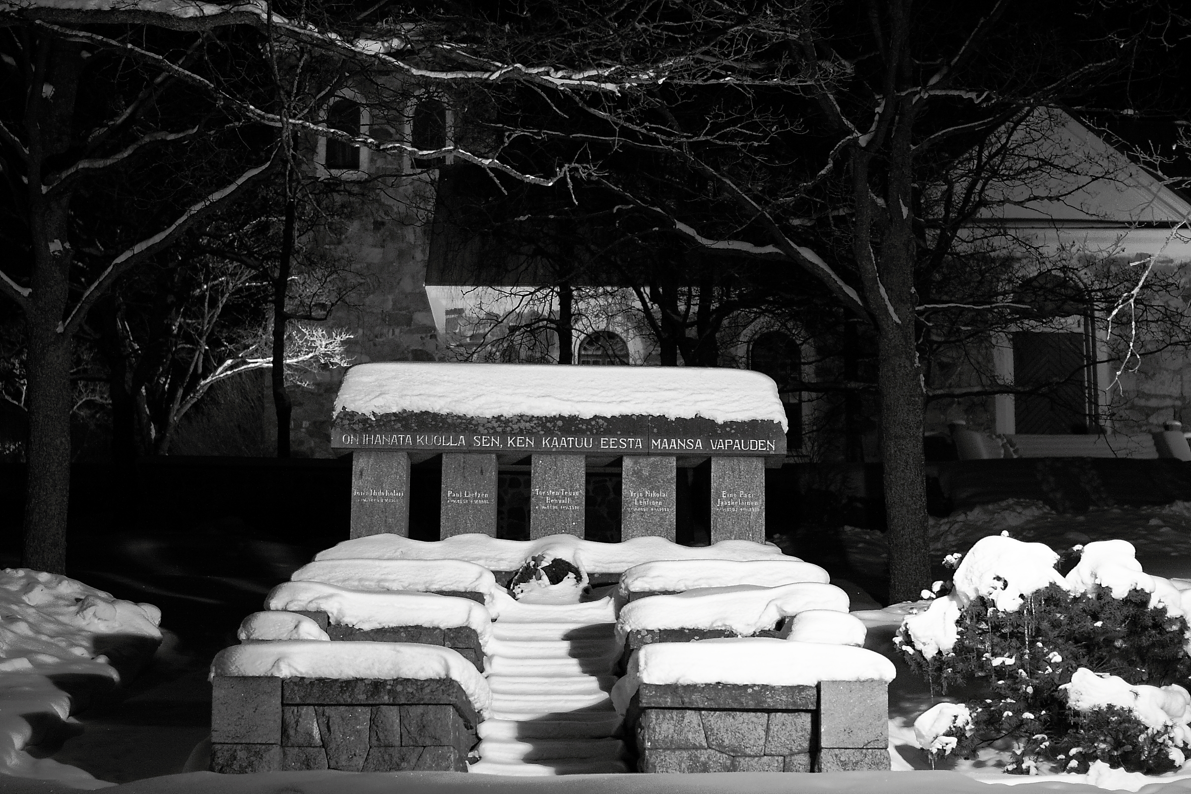 Uskela church in Salo, Finland